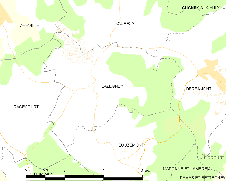 Map of French municipality Bazegney